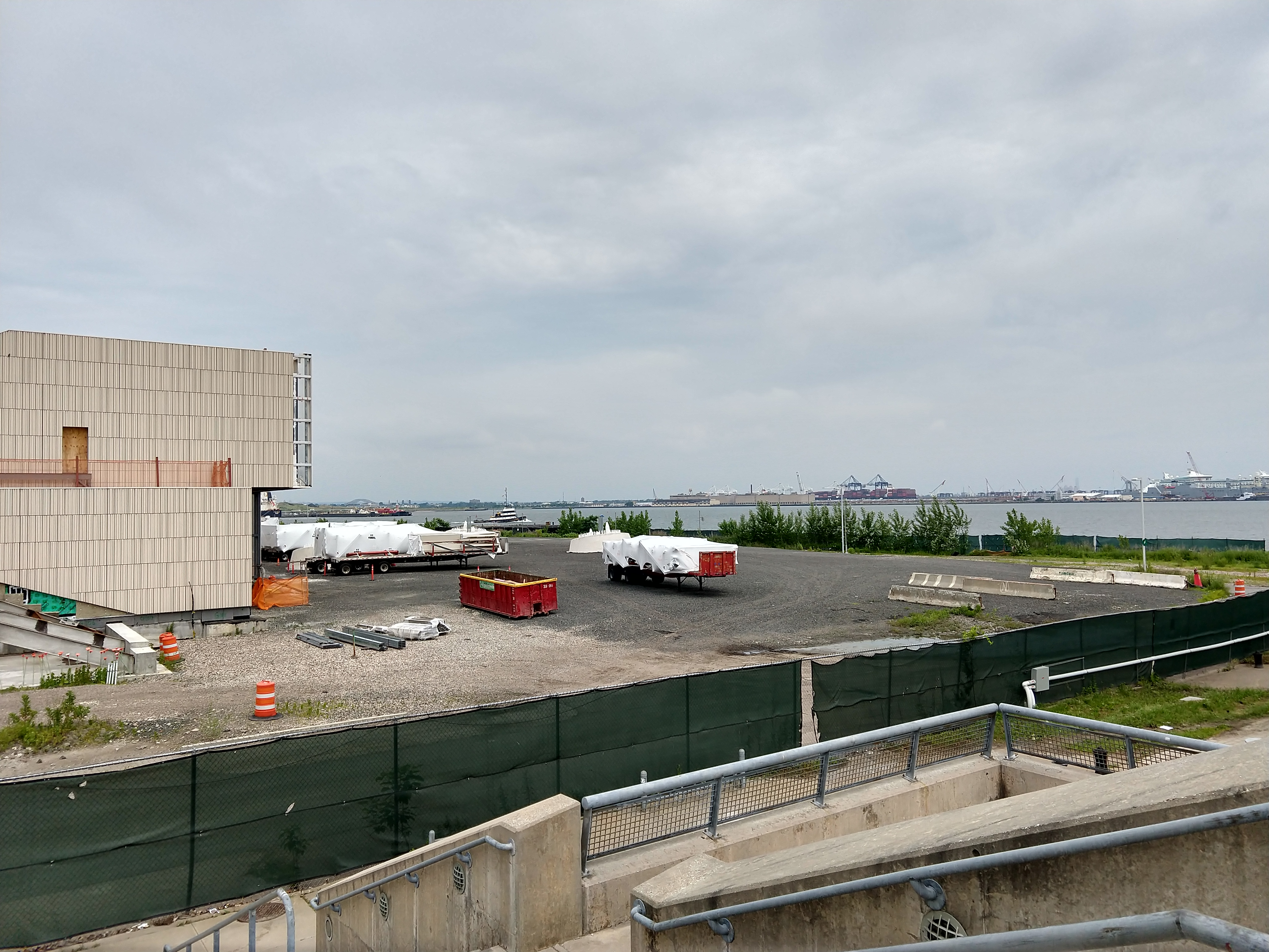 The future site of the New York Wheel, adjacent to Richmond County Bank Ballpark in St. George, Staten Island.